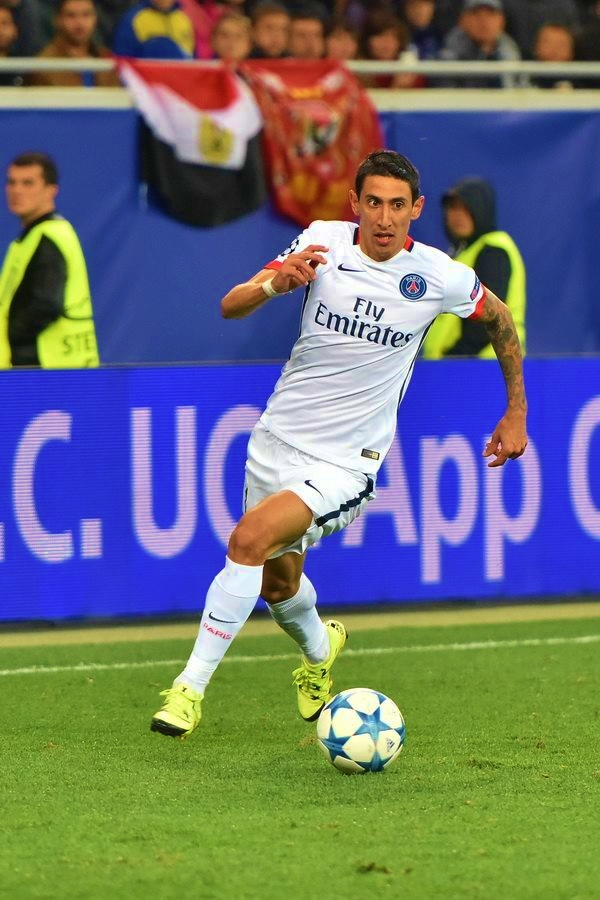 Ángel Di María